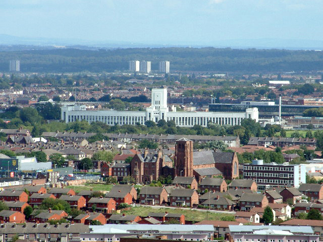 A view over the city of Liverpool towards the Littlewoods Building from the Liverpool Anglican Cathedral Tower, Merseyside, England.